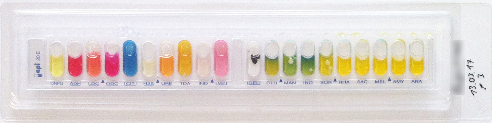 API® 20E test strip, a standardized and miniaturized testing system for fast identification, version of existing techniques in small wells, inoculated with Enterobacter cloacae, incubated for 1 day, numerical profile is 3305473.